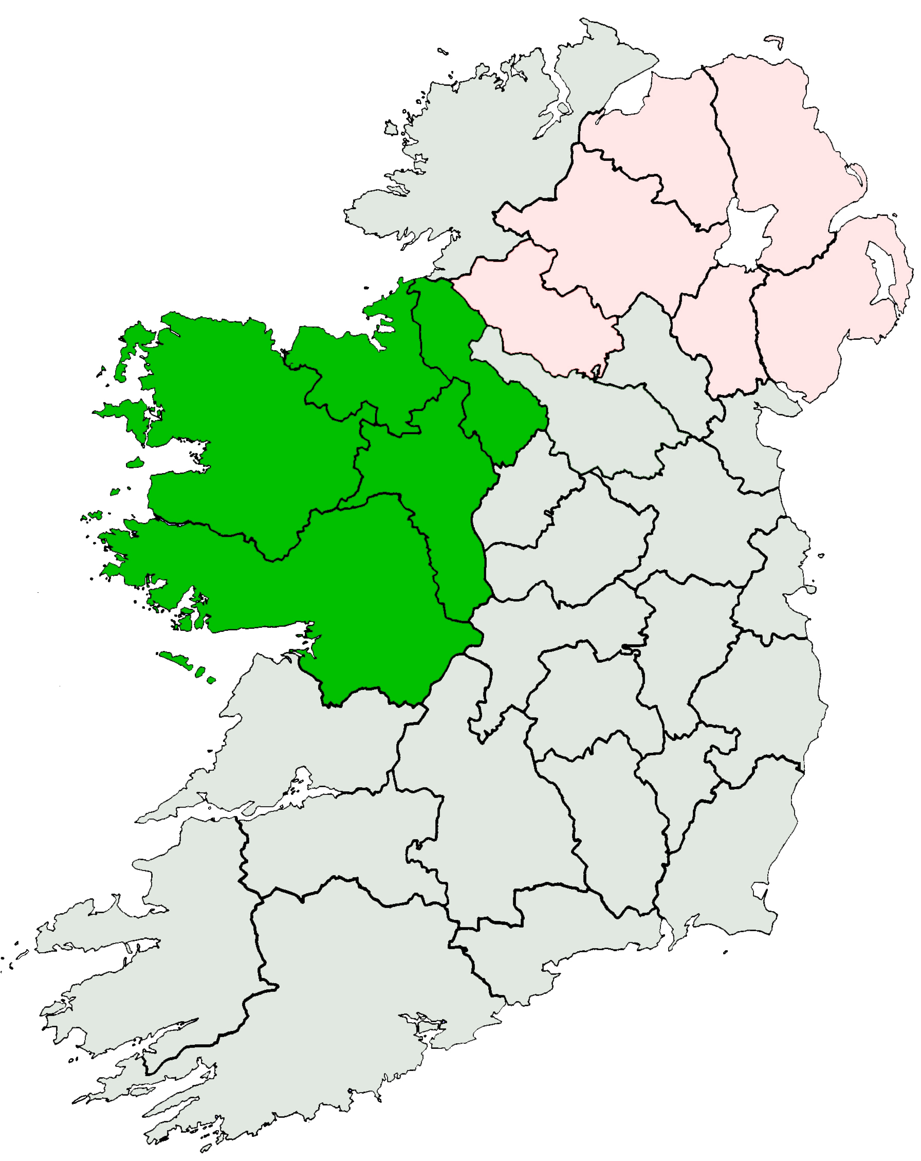 Connacht highlighted on an outline map of Ireland.